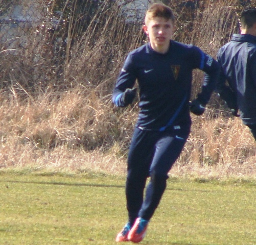 Dominik Kun training in Pogon Szczecin